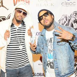 Southern Rap Duo From Atlanta Georgia